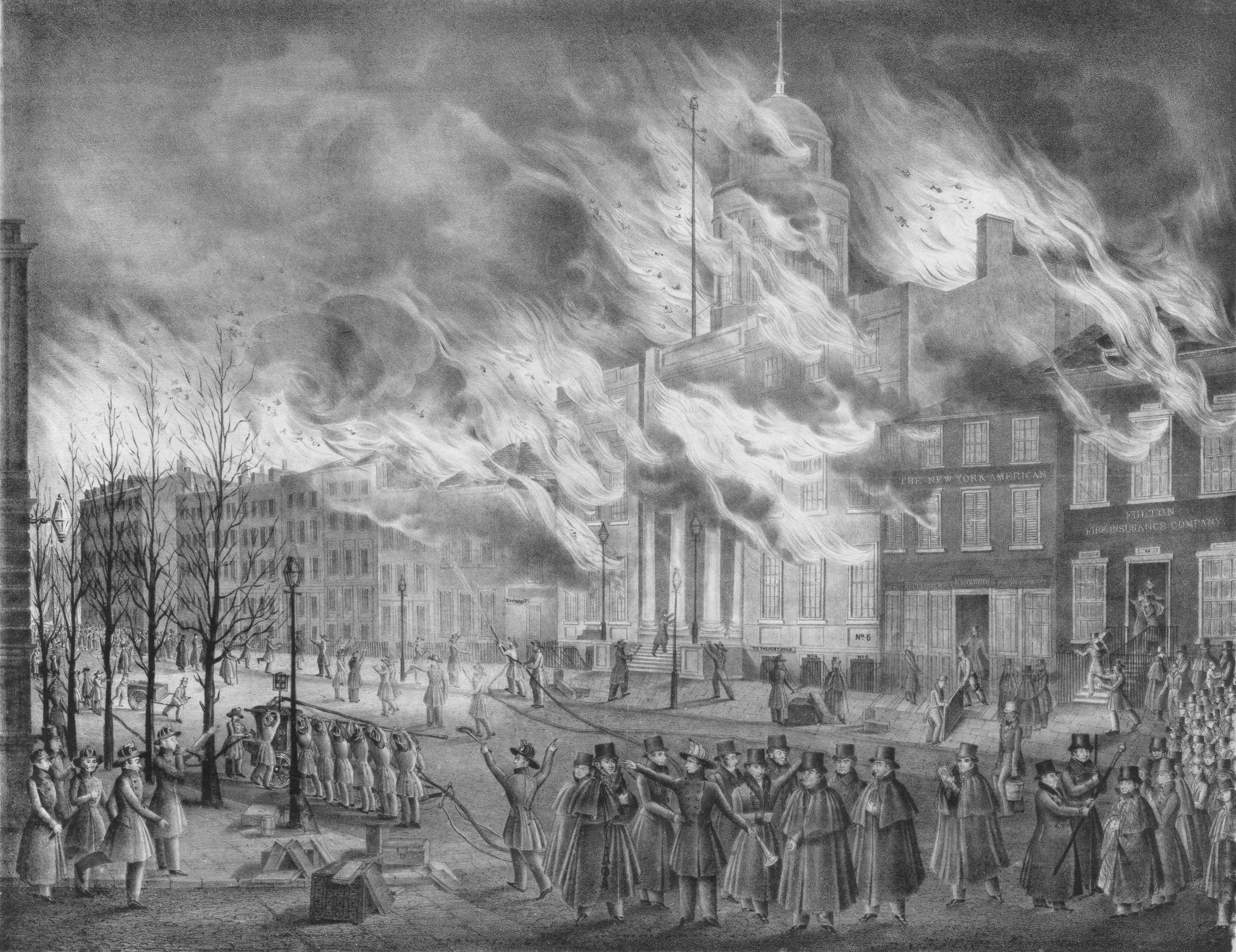 Lithograph showing the burning of the Merchant's Exchange Building during the Great Fire of New York, December 16-17 1835